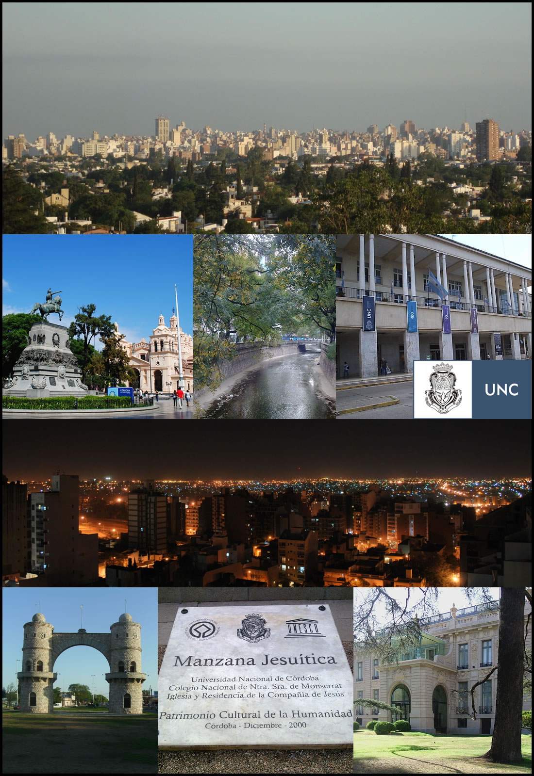 Images montage from Córdoba City, Argentina. Clockwise from top: Cityscape taken from Naciones Park, San Martin Square, La Cañada Glen, Argentina Pavilion from National University of Cordoba, Cityscape at night taken from Nueva Cordoba neighborhood, Arch of Cordoba, Plaque commemorating the designation of the Jesuit block as world heritage in 2000, Evita Museum of Fine Arts.